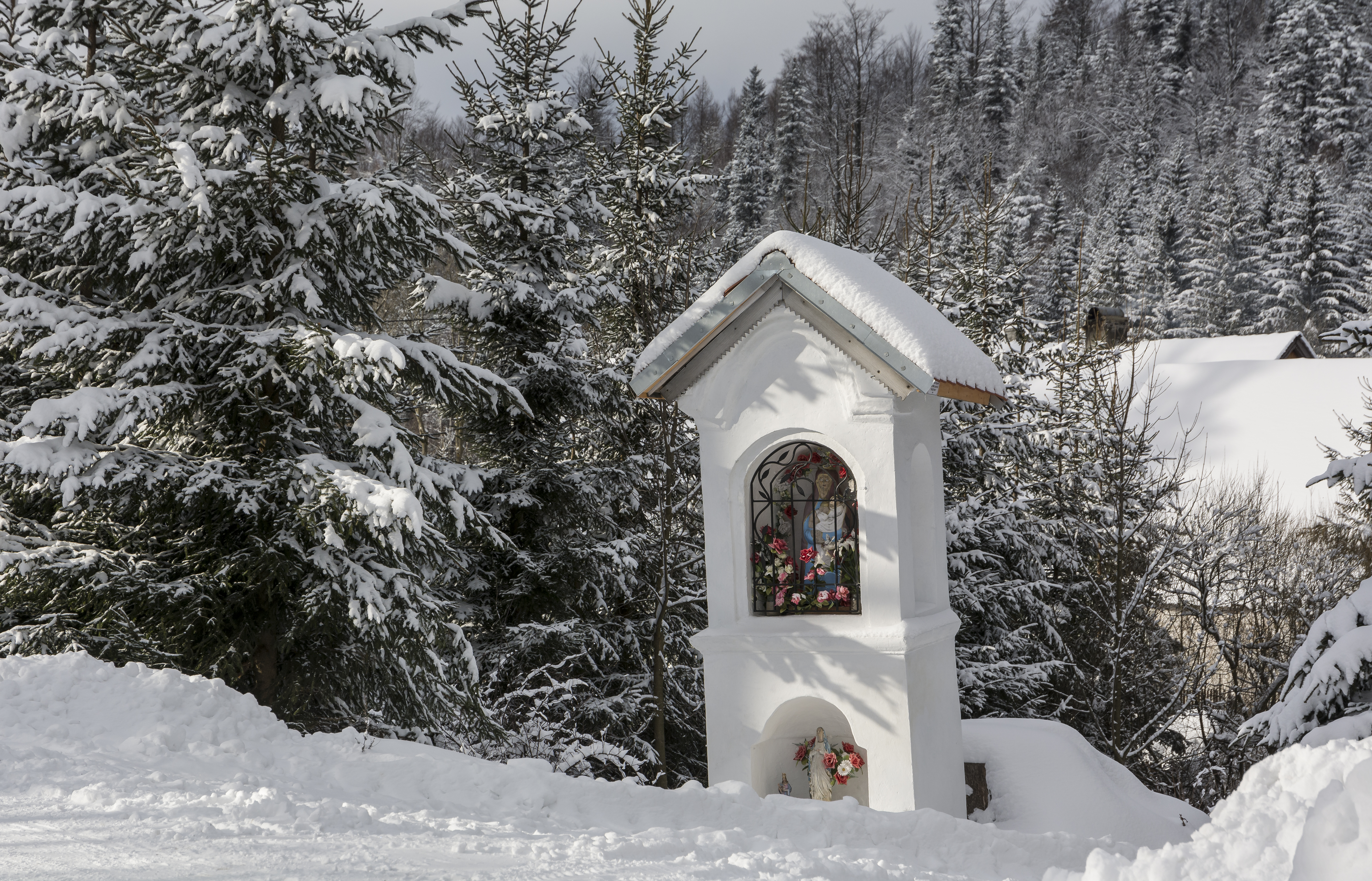 Roadside chapel in Stary Gierałtów